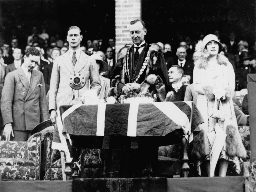 Their Royal Highnesses, The Duke and Duchess of York, visit Toowoomba, 1927. The Duke of York, the Mayor of Toowoomba - James Douglas Annand, and the Duchess of York. The Duke of York went on to become King George VI and the Duchess of York became Queen.